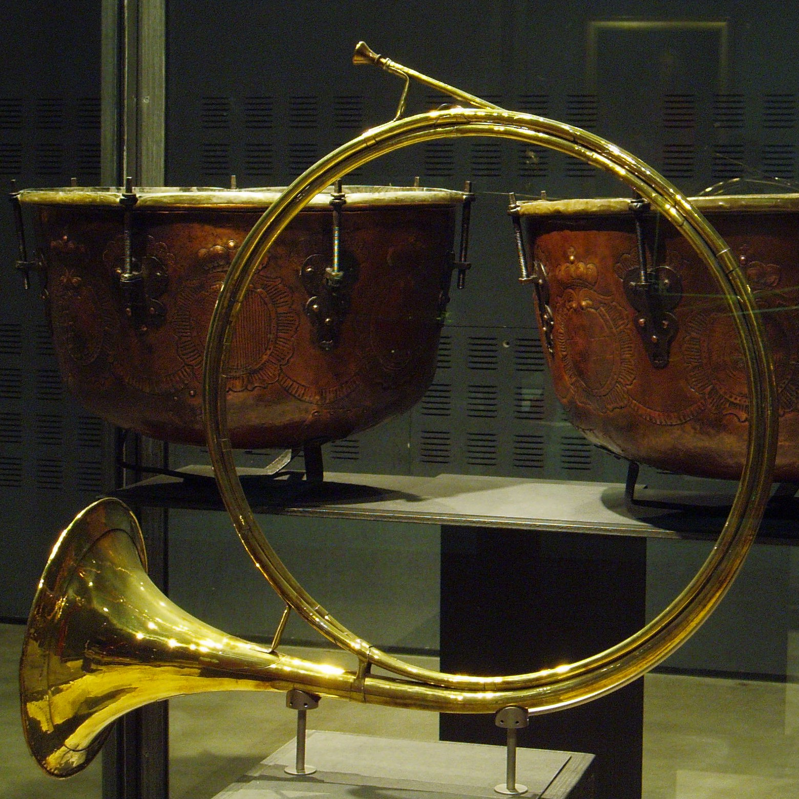 Hunting horn (Trompe de chasse) - Carlin, Paris, mid. XVIIIth century - Paris, Musée de la musique